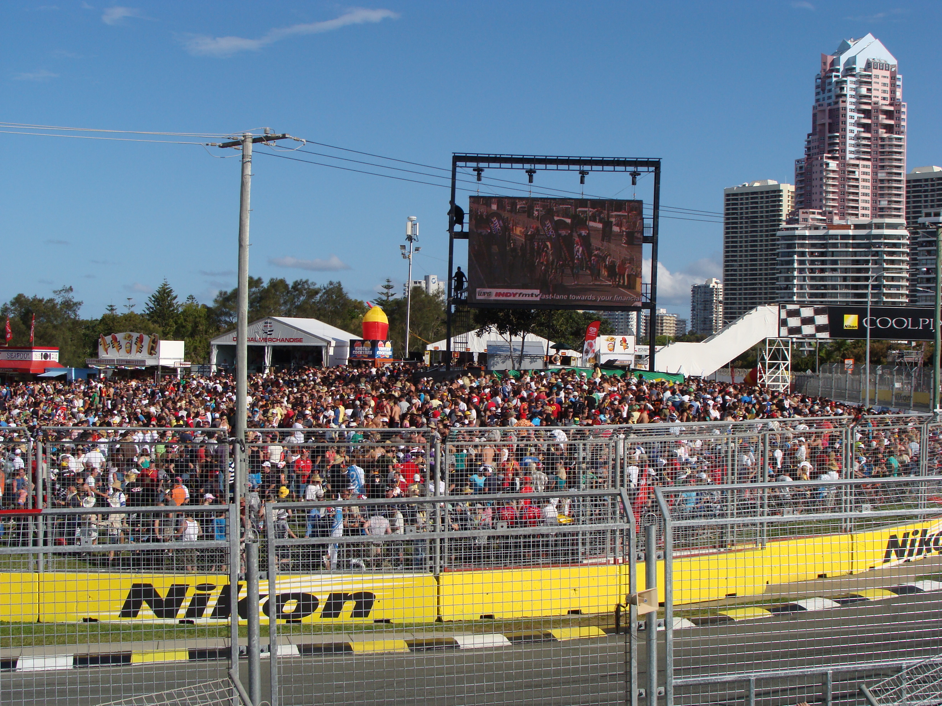 Indy in Surfers